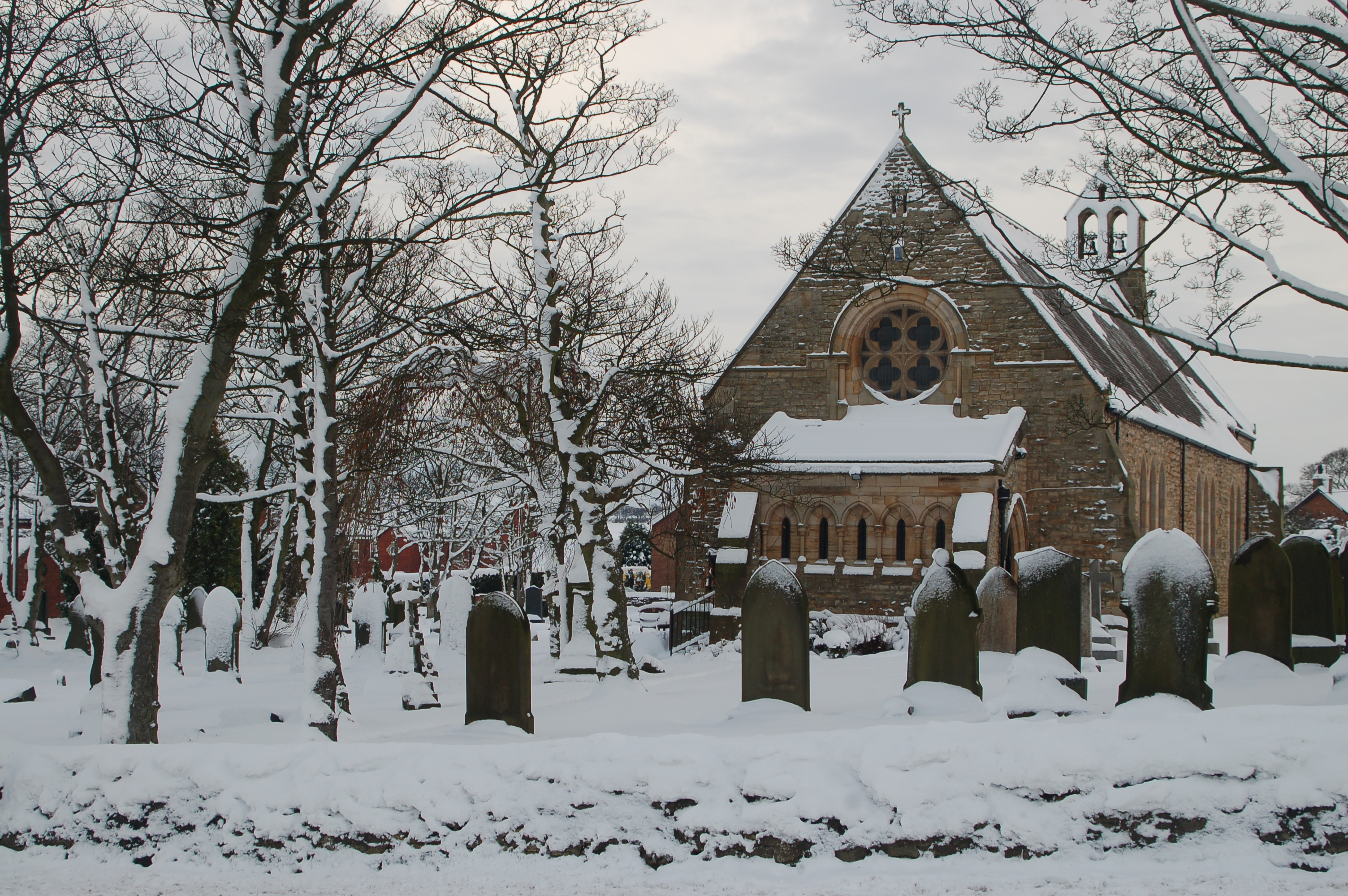 St Cuthbert's parish church, Marley Hill, Gateshead, Tyne and Wear, seen from the northwest